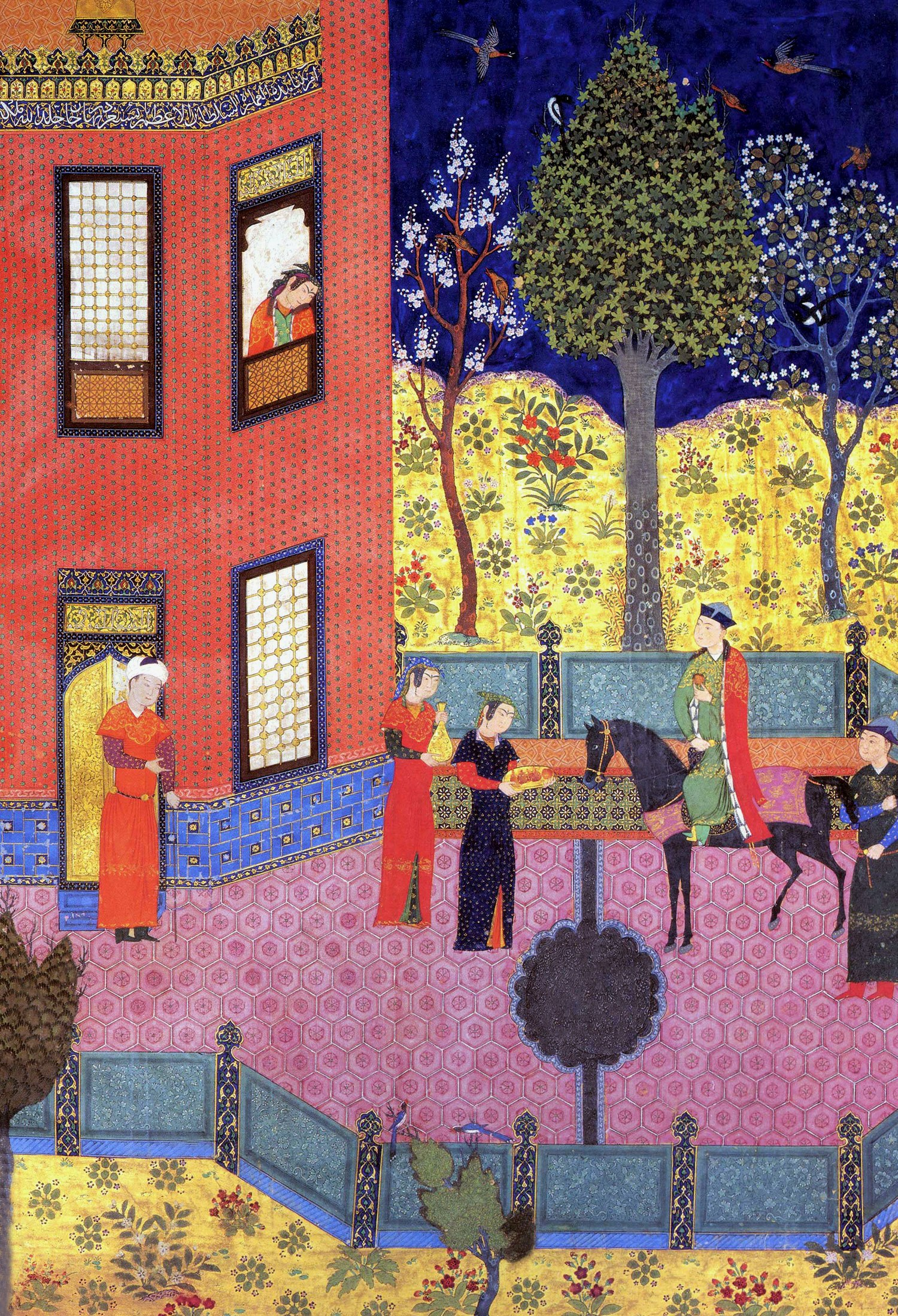 Gulnar_sees_Ardashir_and_falls_in_love_with_him._Baysungur's_Shahnama,_1430._The_Gulistan_Palace_Museum,_Tehran.f469